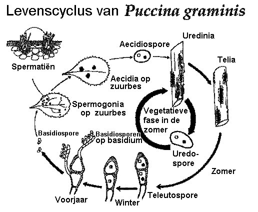 Image:Puccina_graminis_lifecycle.gif now with Dutch text